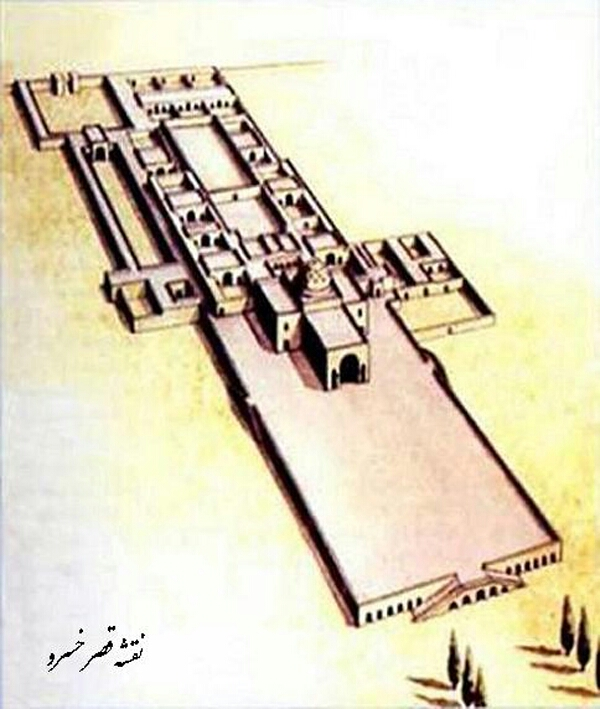 کاخ خسروشیرین